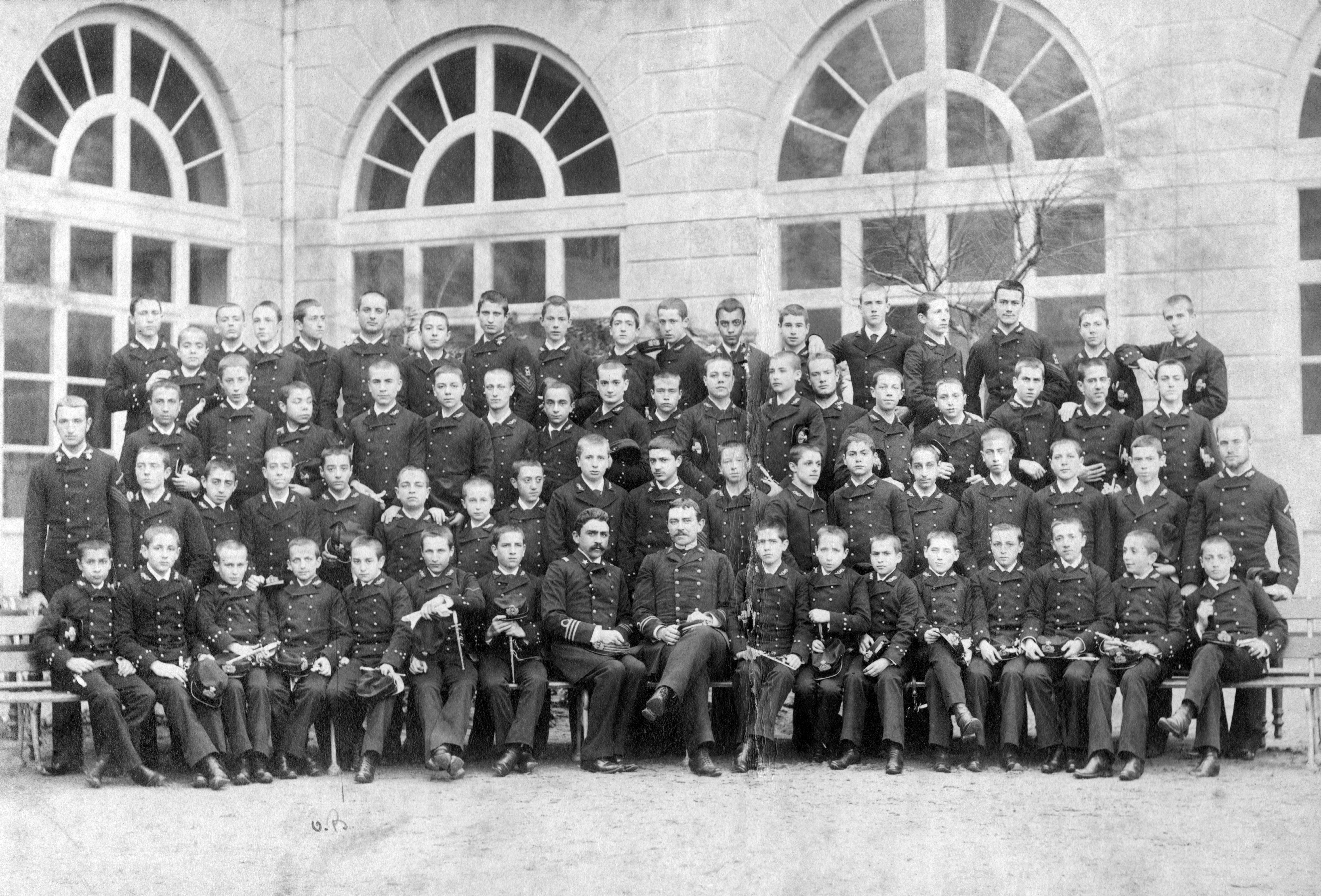 Italian Admiral Ernesto Burzagli (1873-1944), at a very young age, around 1890 the Naval Academy. The original picture, scanned by Emiliano Burzagli, belongs to the Private archive of Burzaghi family, Italy.